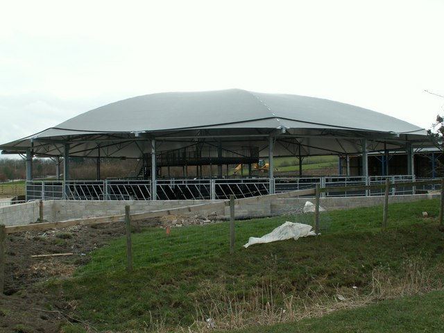 Cannon Hall Farm Roundhouse This is a new cattle house, based on bronze age principles with a 21st century design. It cost in the region of £225,000 and can be dismantled and moved else where. It can house around a hundred cattle.